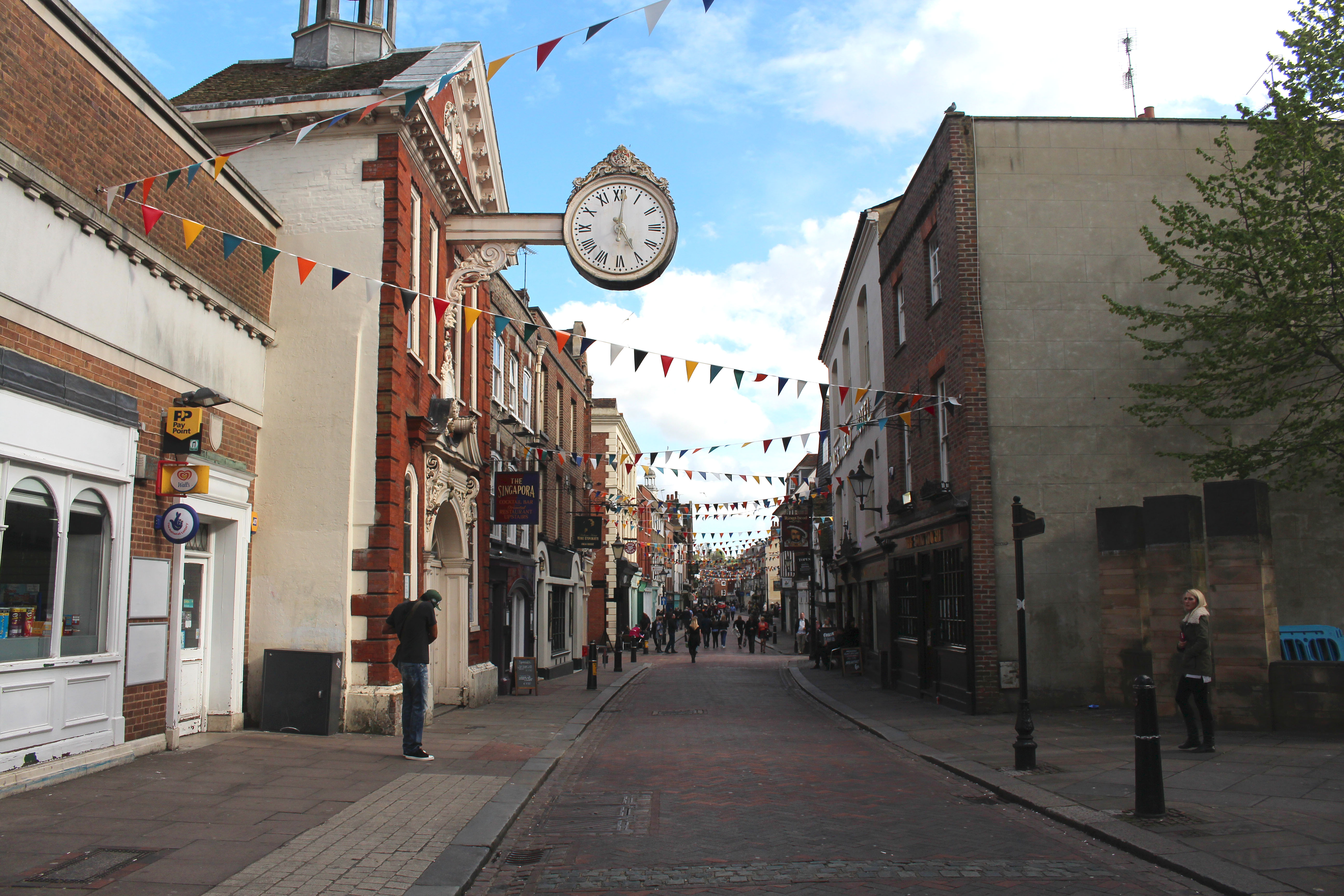 Rochester High Street looking east